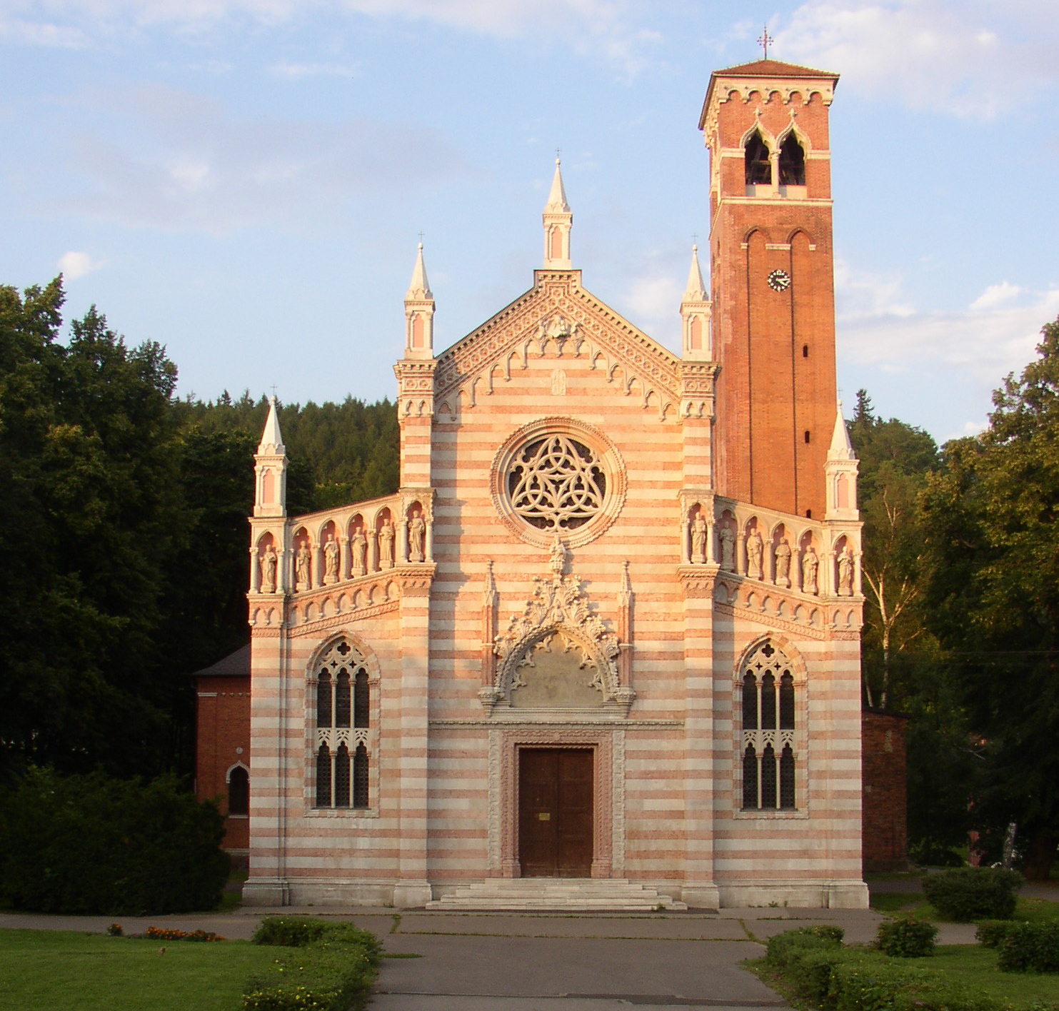 Gothic Revival church of the Immaculate Conception (1898-1906) in Dubí, Czech Republic, a unique example of Venetian architecture in territory of the Czech Republic.